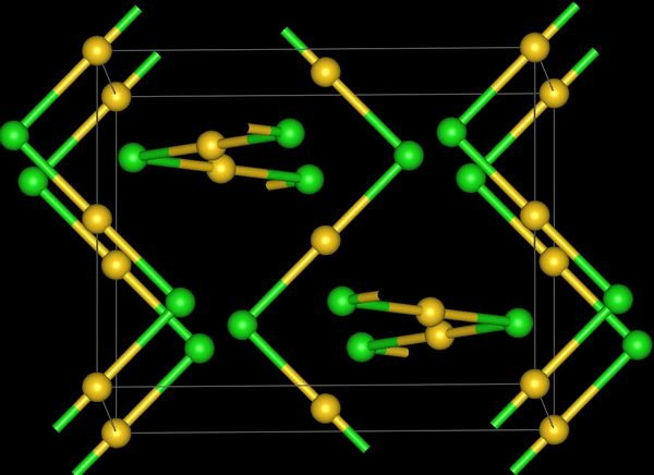 AuCl